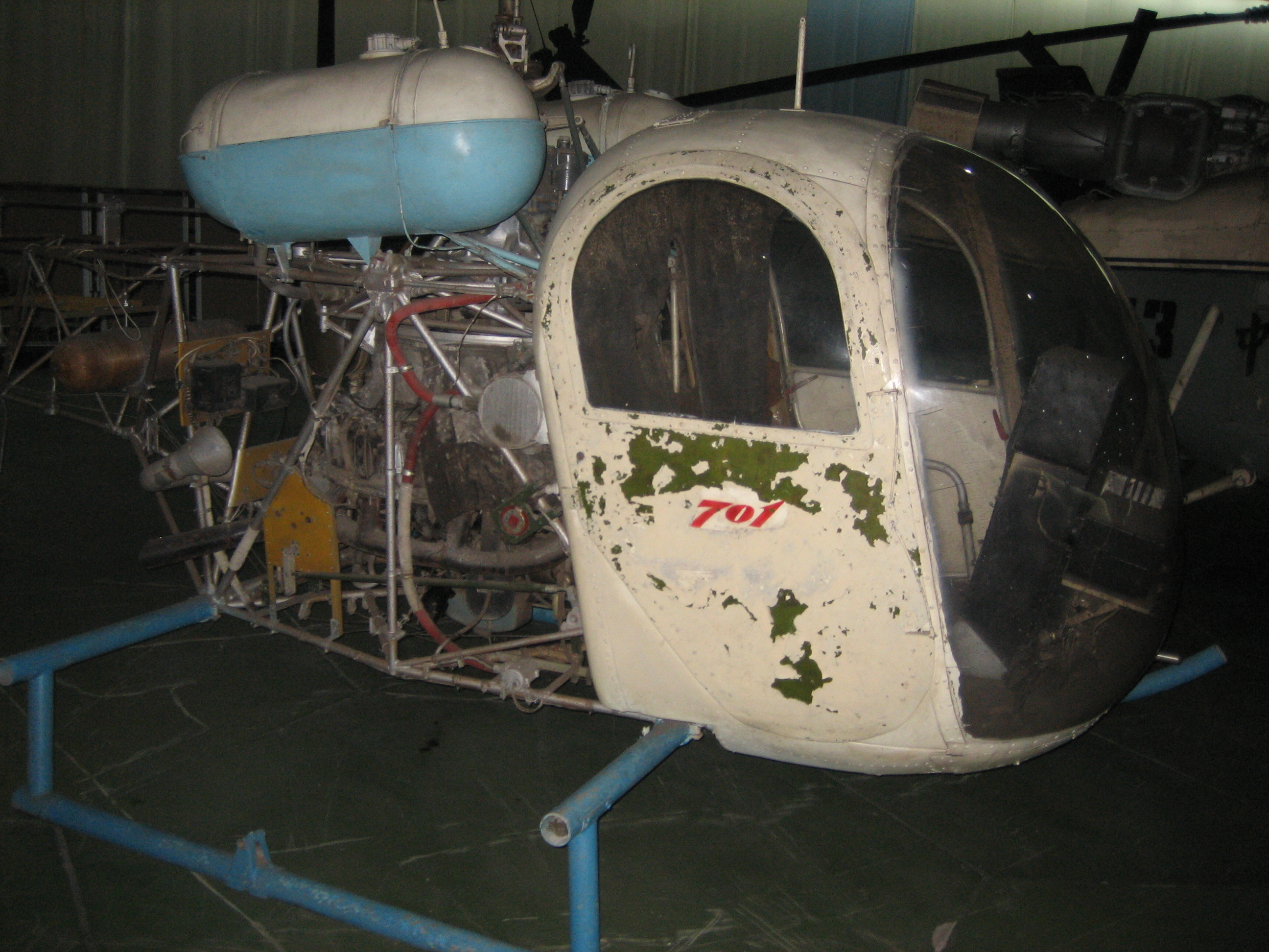 Harbin Z-701 (Bell 47) helicopter in the China Aviation Museum.